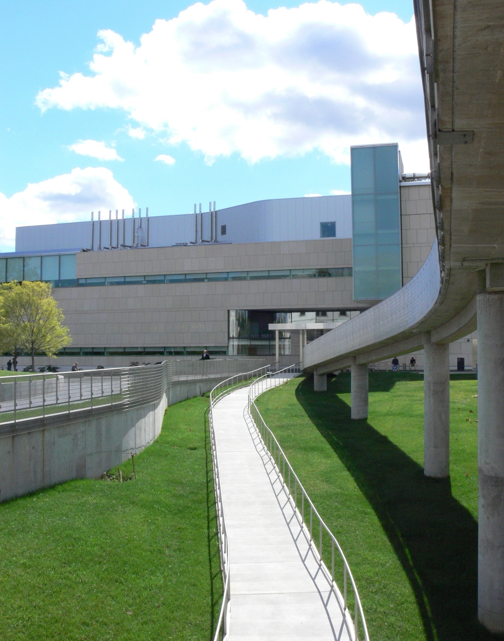 The main entrance to the 2010 McGlothlin wing of the Virginia Museum of Fine Arts, in Richmond, Virginia, United States of America, taken several months after completion.